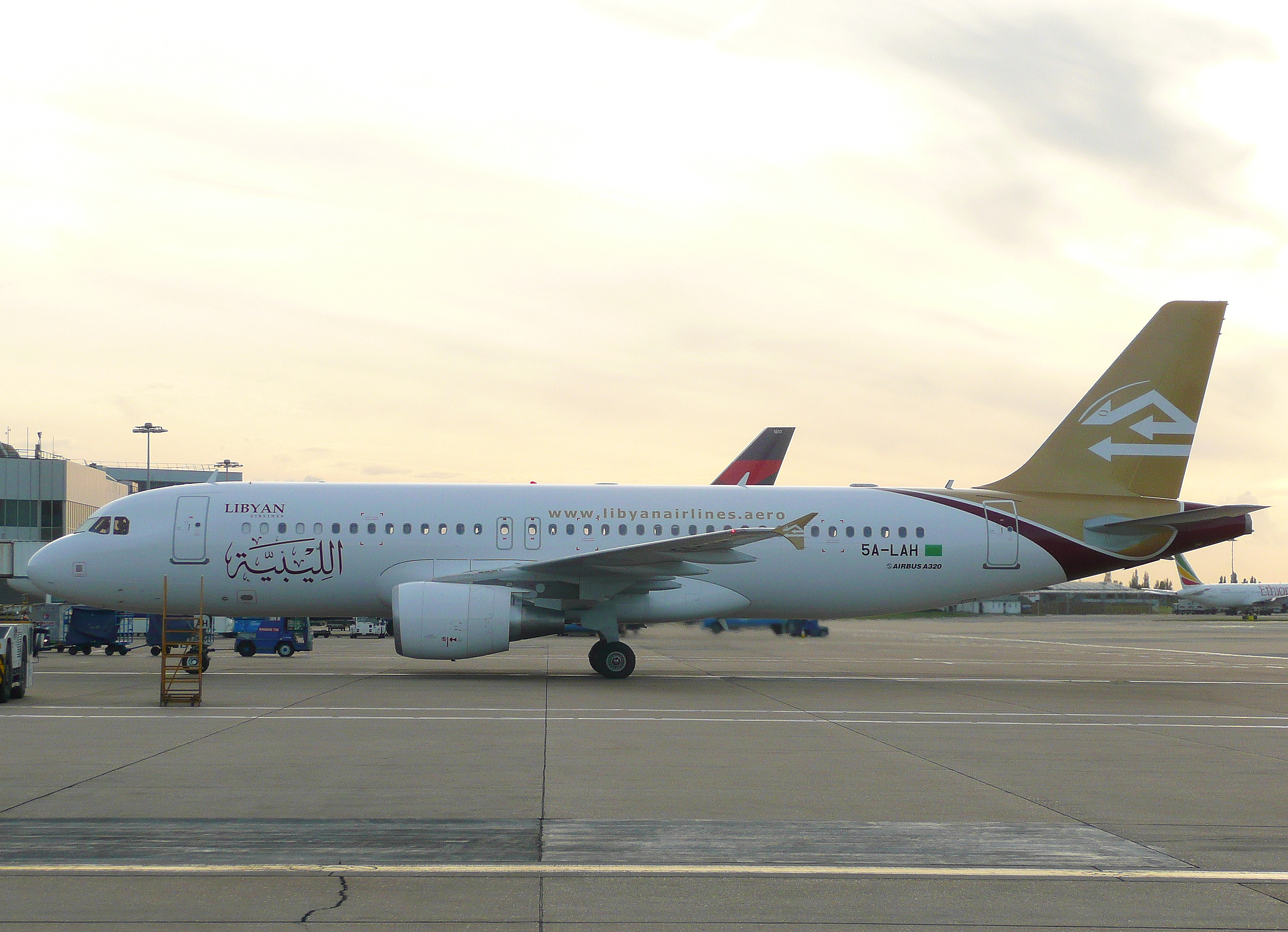 5A-LAH A320 Libyan Airlines pulling on std 411.